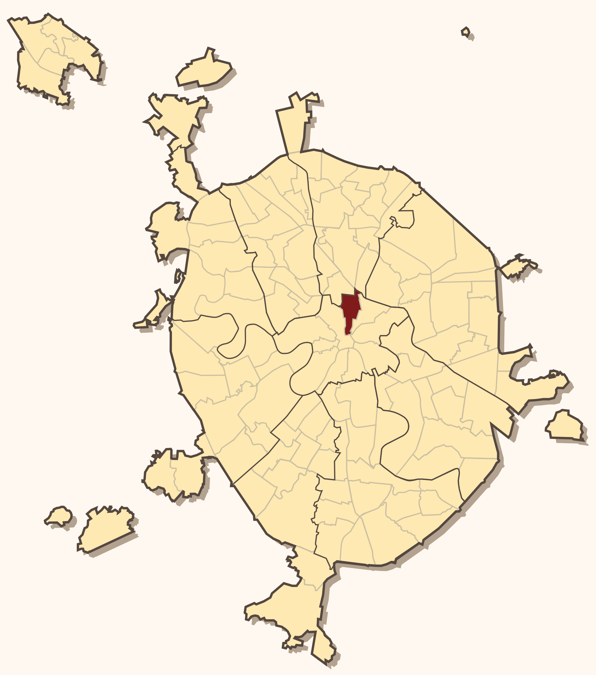 Moscow districts map